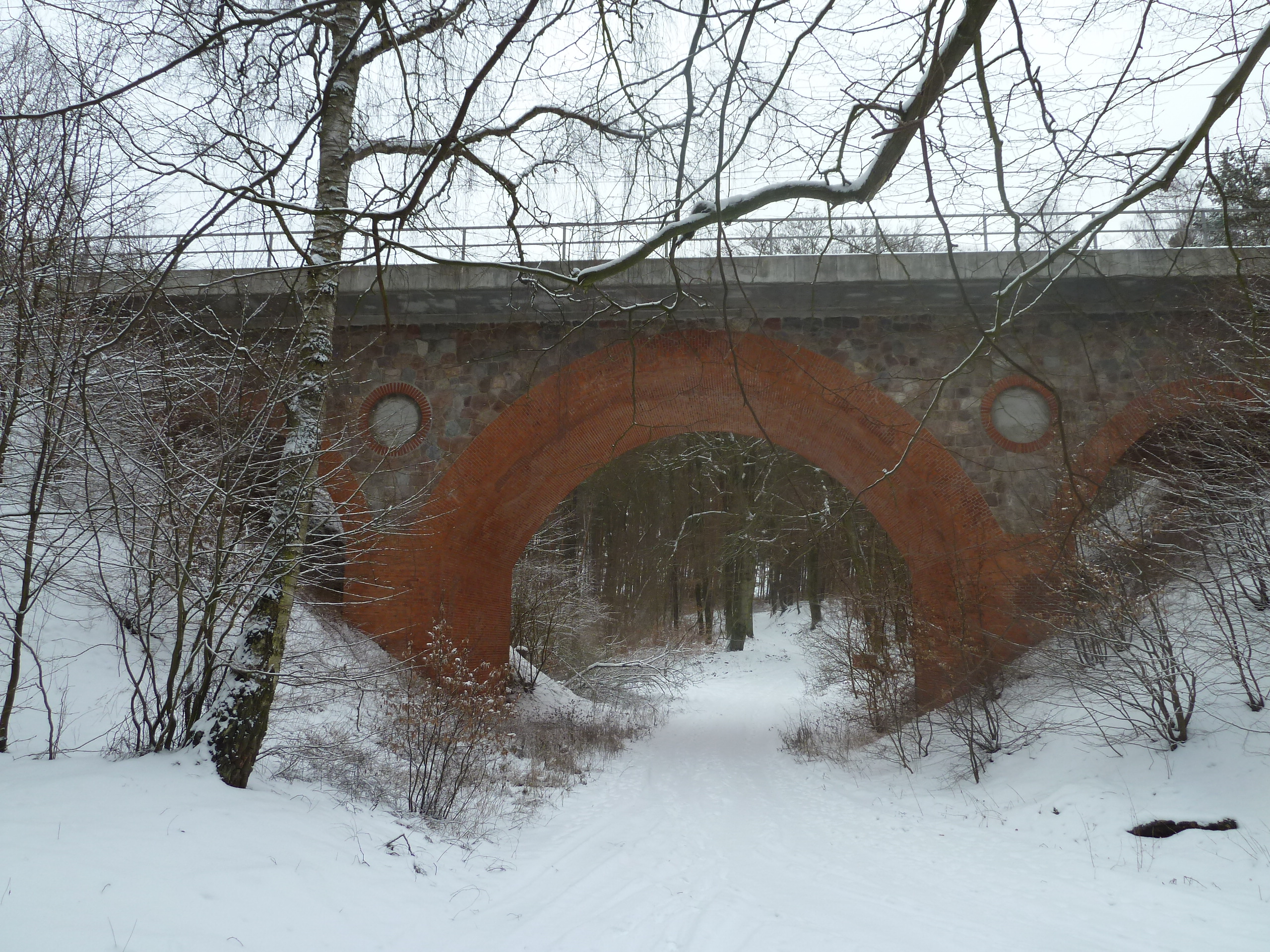 old railway bridge near Borne, Bad Belzig, Brandenburg, Germany